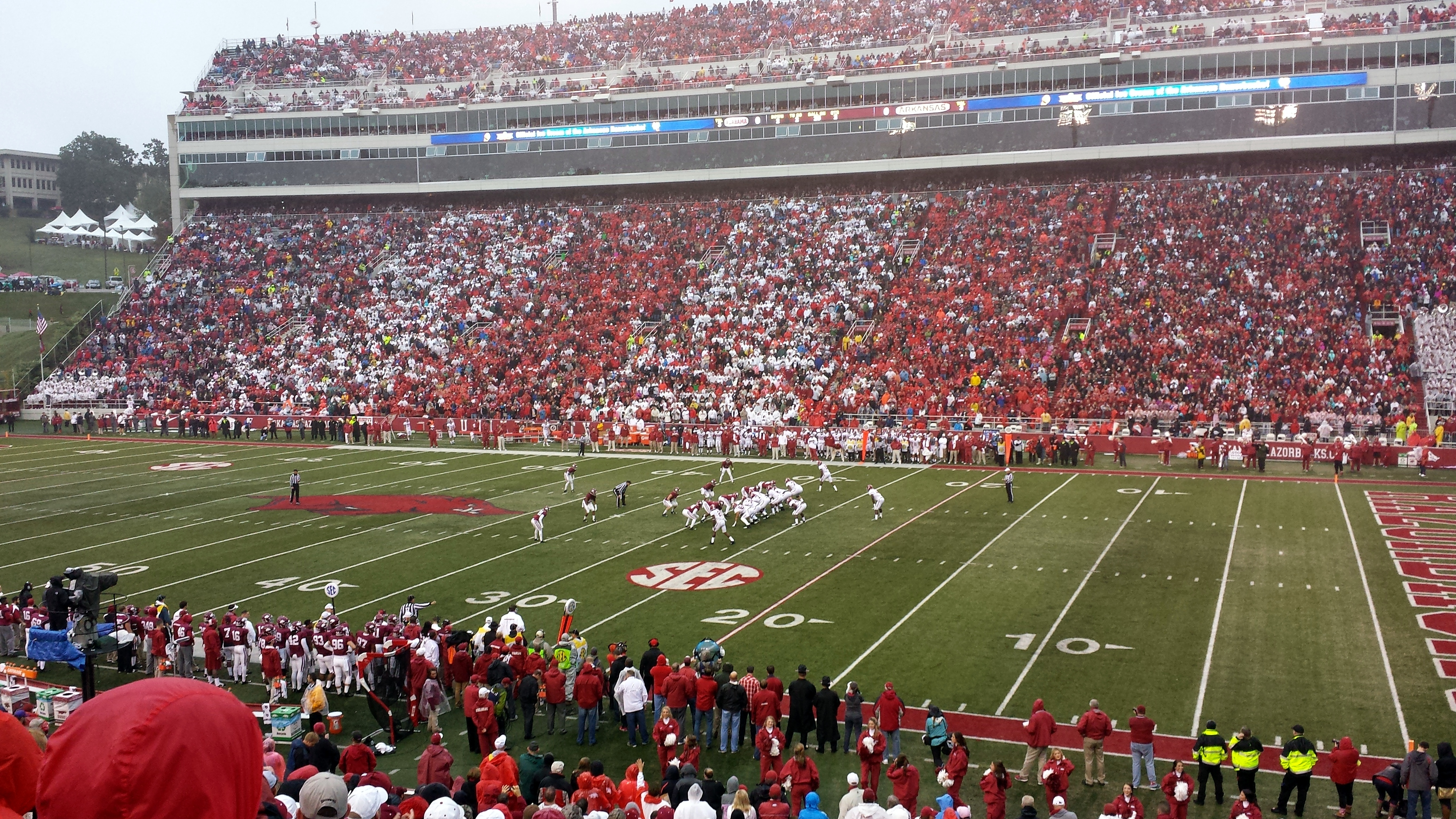 Alabama at Arkansas in Reynolds Razorback Stadium in Fayetteville, AR